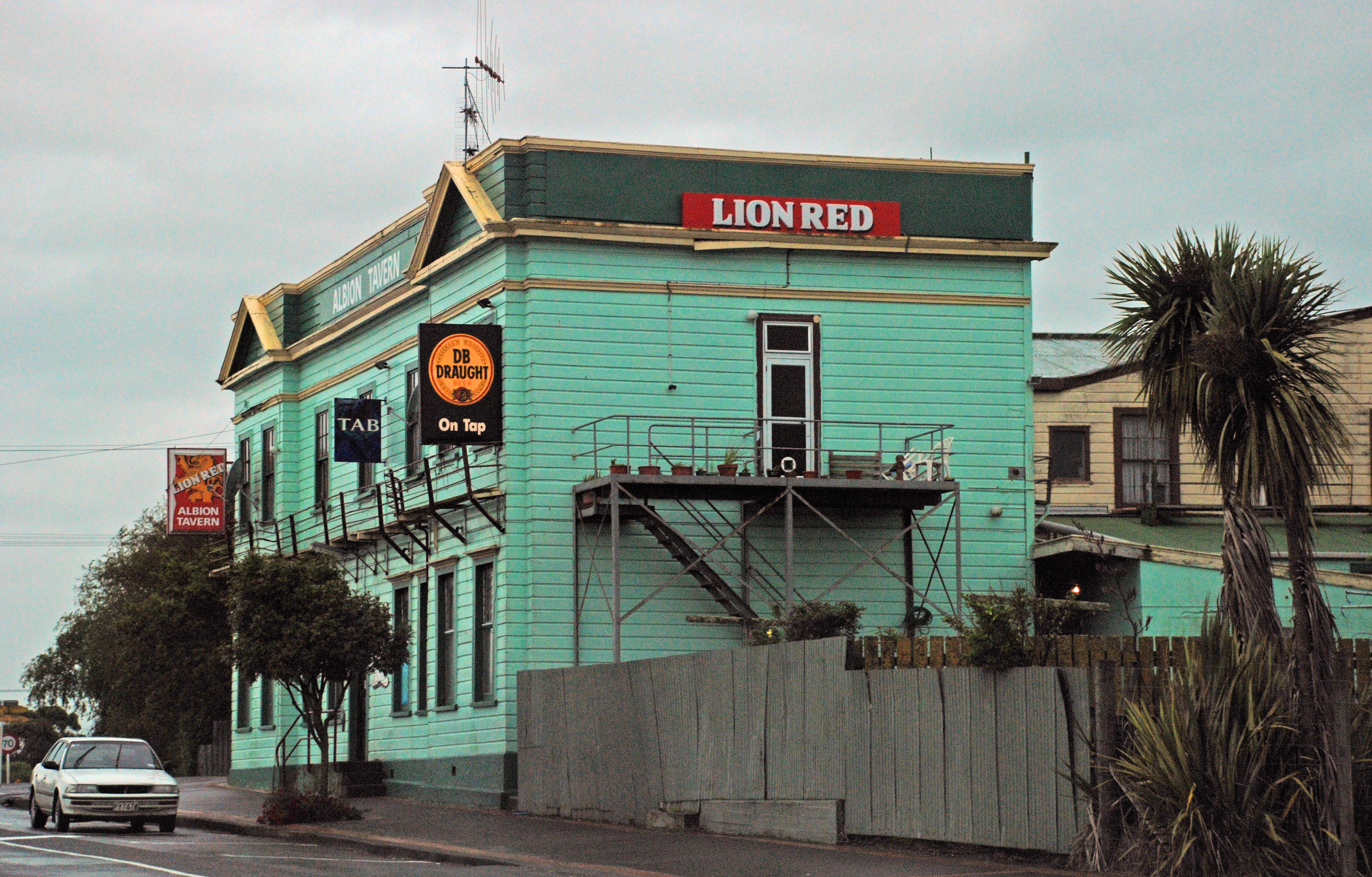 Albion Tavern, Shannon, Manawatu, New Zealand